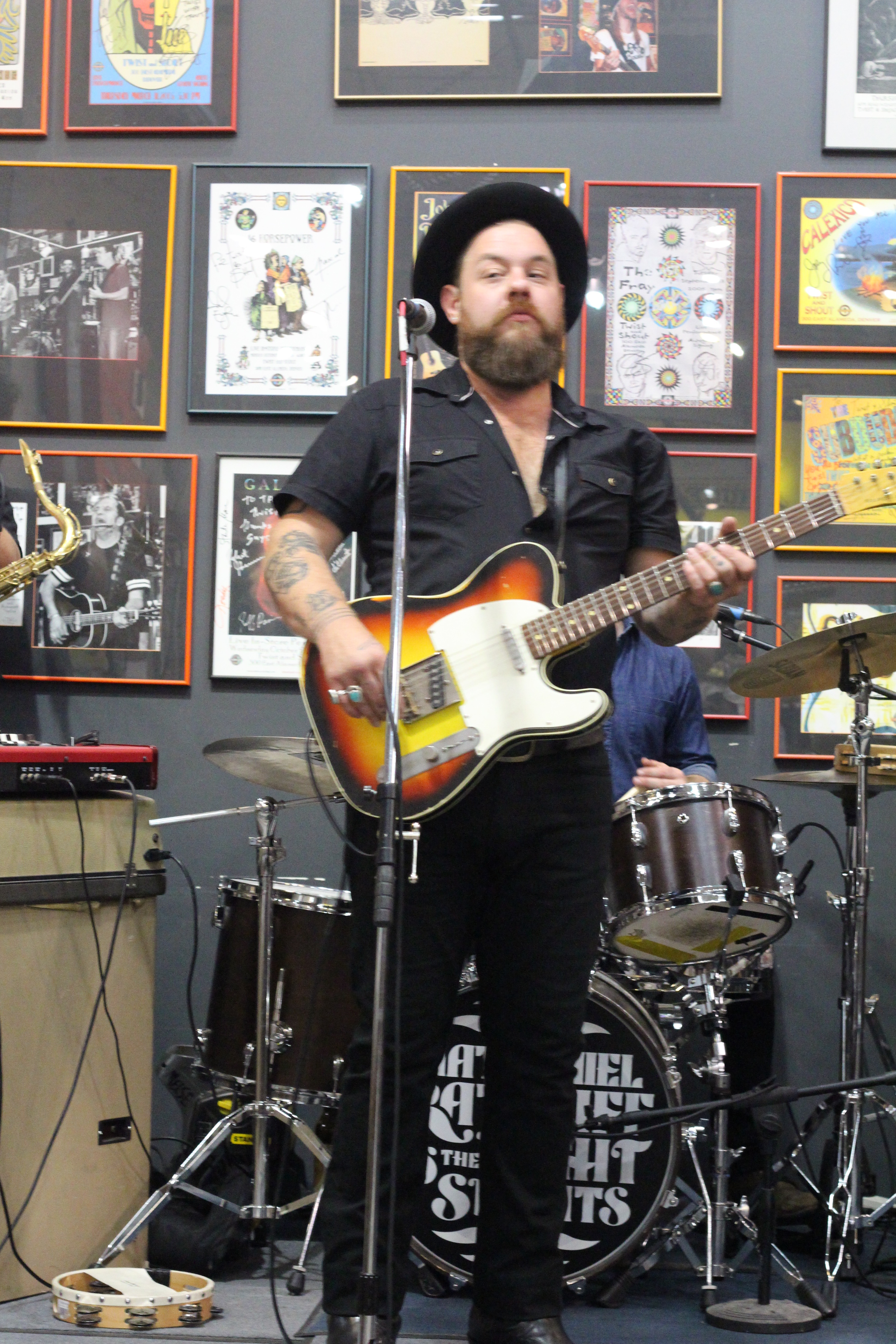 Nathaniel Rateliff & the Night Sweats . Twist & Shout. 08.20.15.